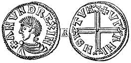 Coin made for king Anund Jakob